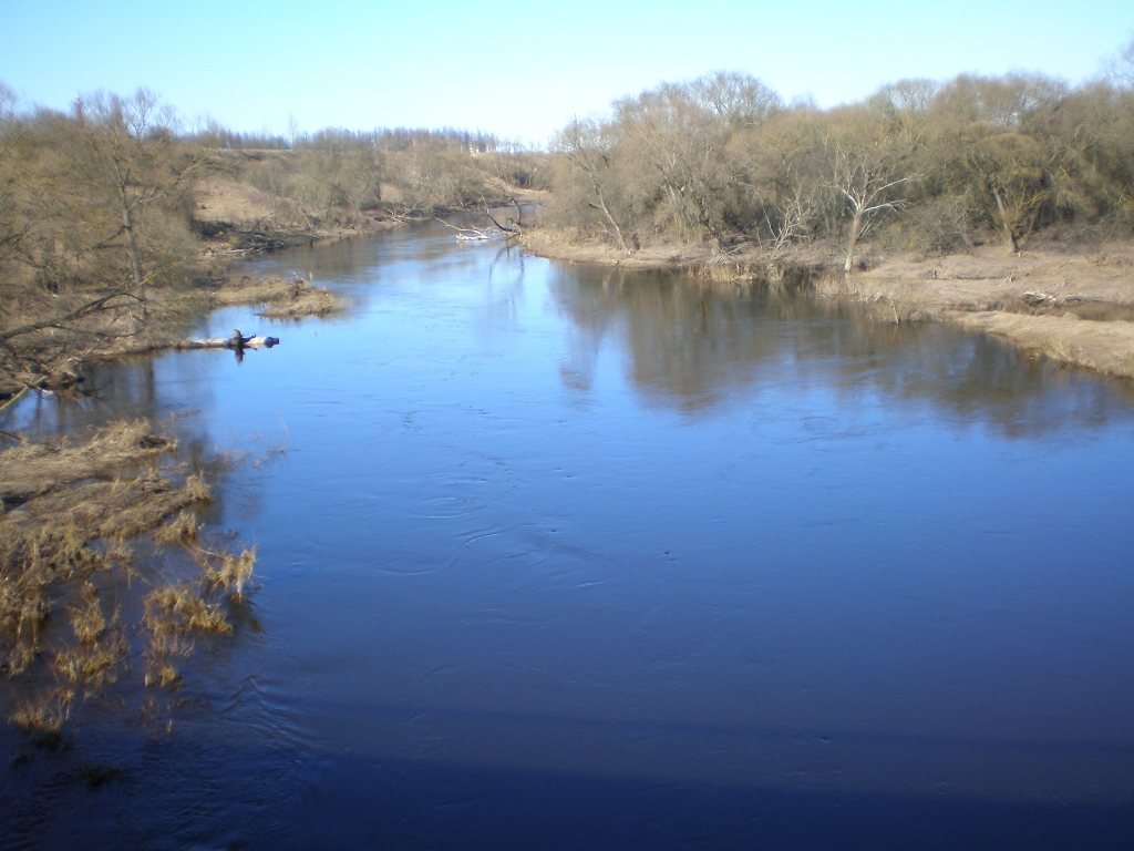 River Nevėžis near Kėdainiai city